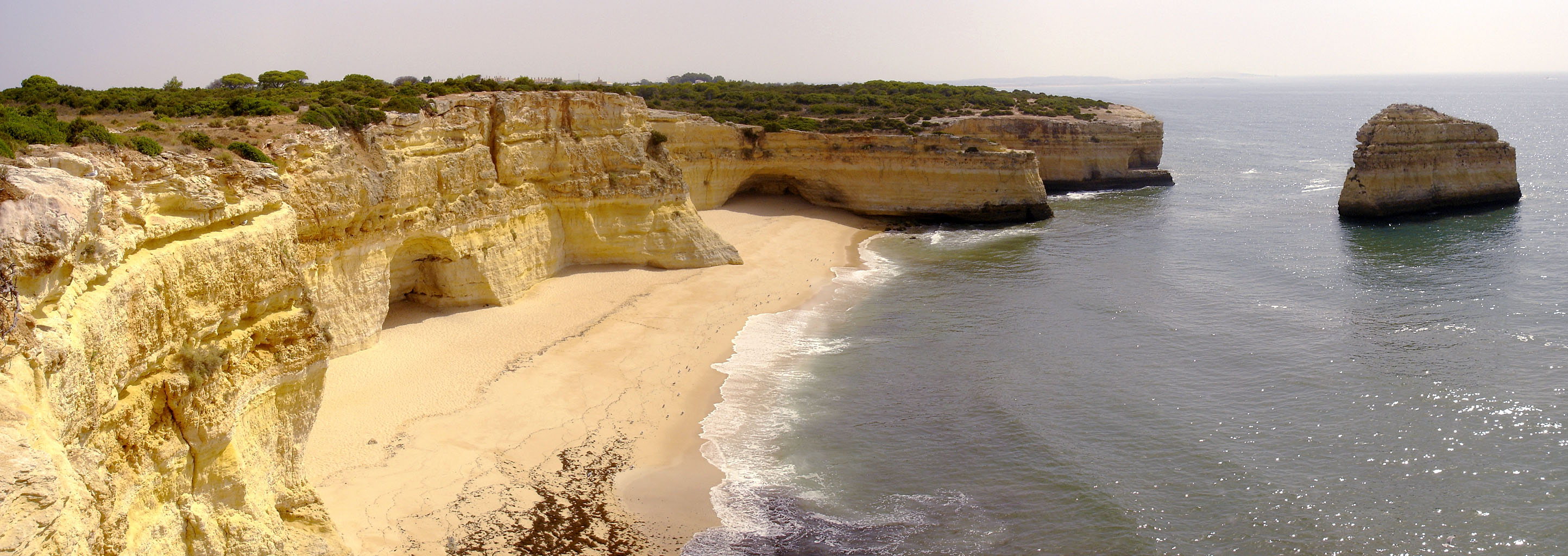 Walking along a footpath east of Praia da Marinha, we see lots of dramatic sea cliffs and inaccessible beaches.